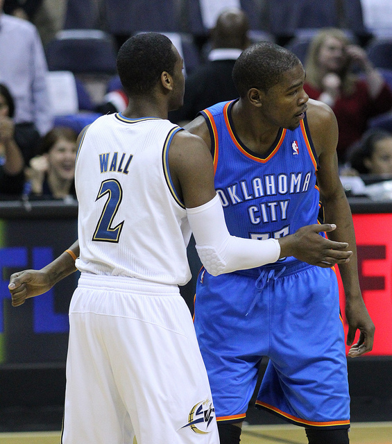 Wizards v/s Thunder 03/14/11